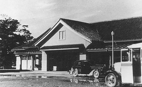 Narita Station in 1937